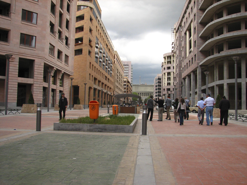 Northern Avenue of Yerevan